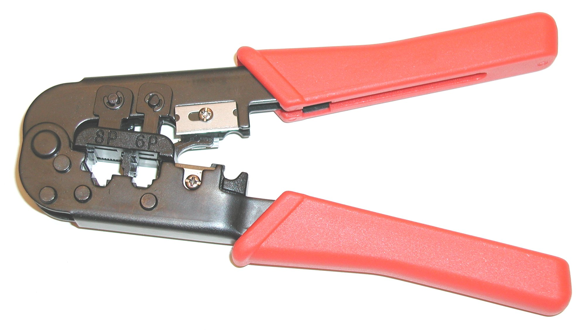 Crimping pliers for RJ (registered jack) connectors with eight or six pin positions like RJ45 och RJ11.